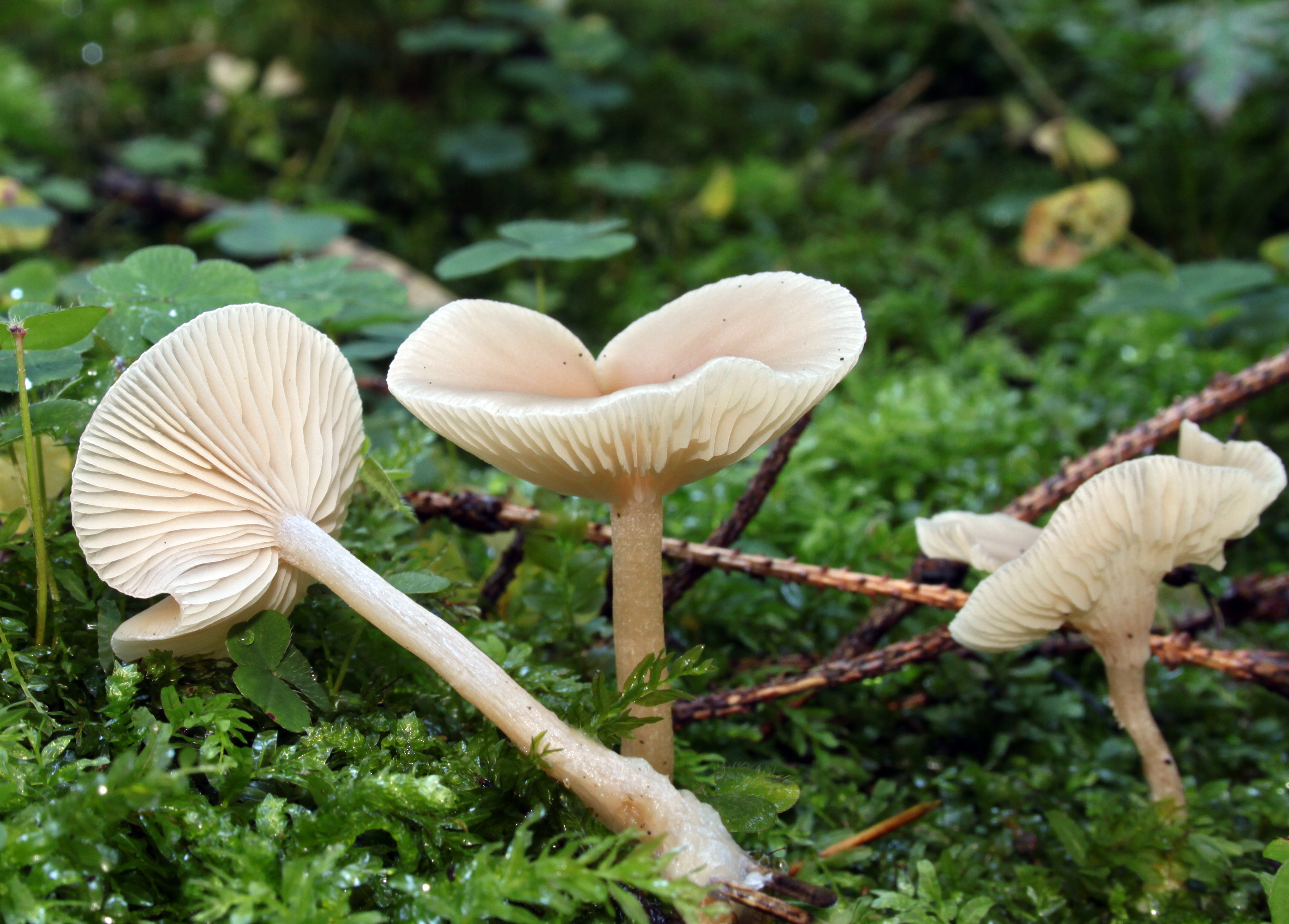 Clitocybe fragrans, Family: Tricholomataceae, Location: Southern Germany, Ringingen